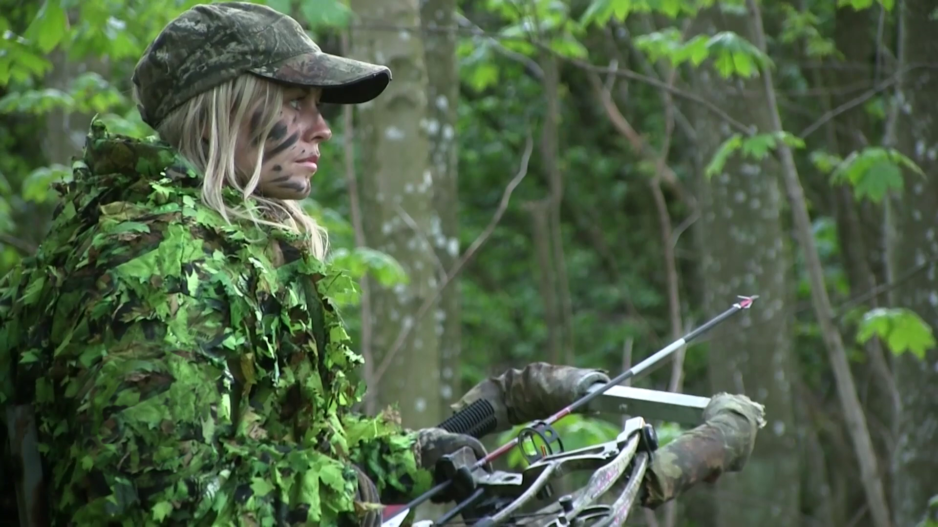 Danish bow hunteress on the hunt for roe deer (image with removed watermark)